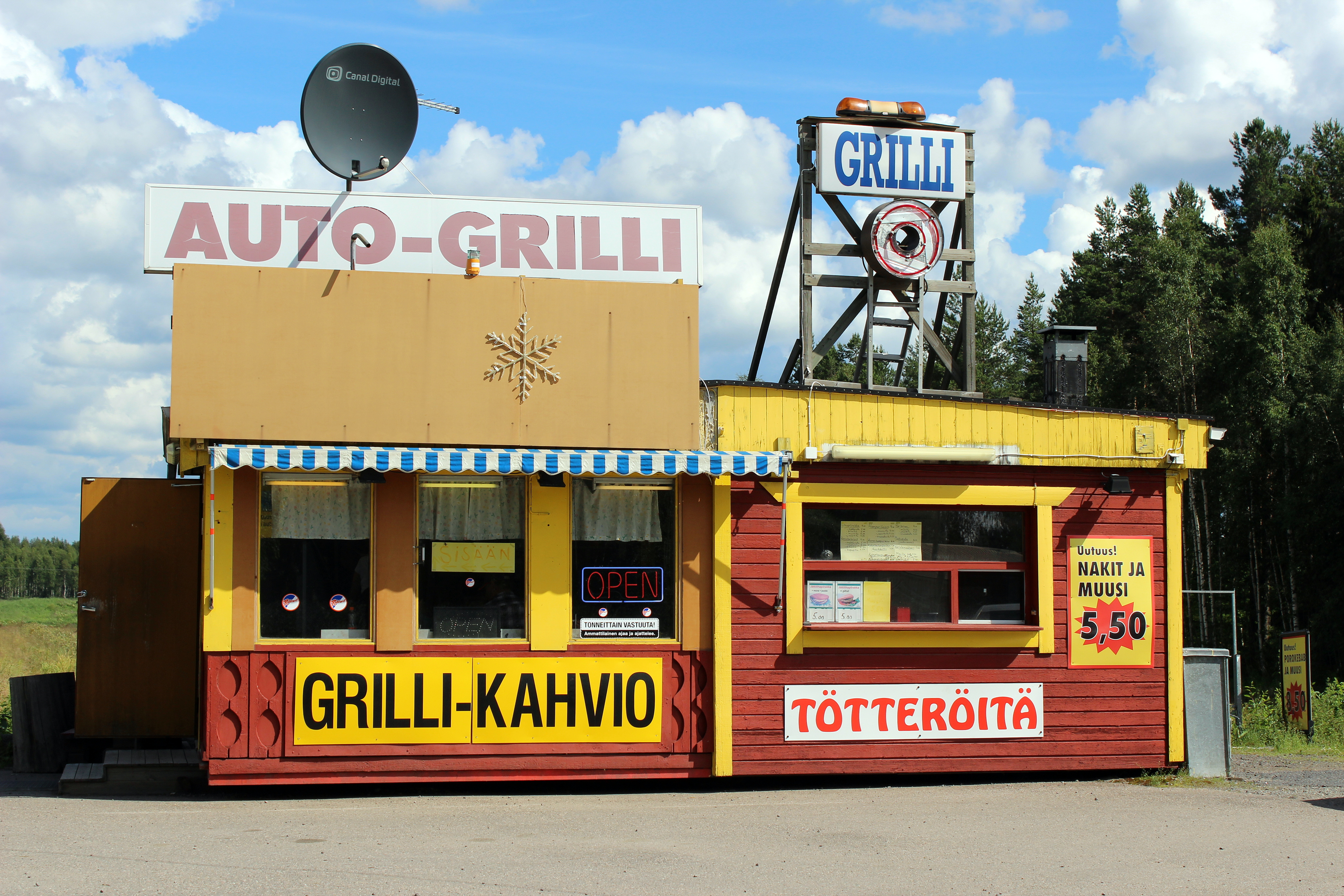 A fastfood and ice-cream kiosk in Rantsila.